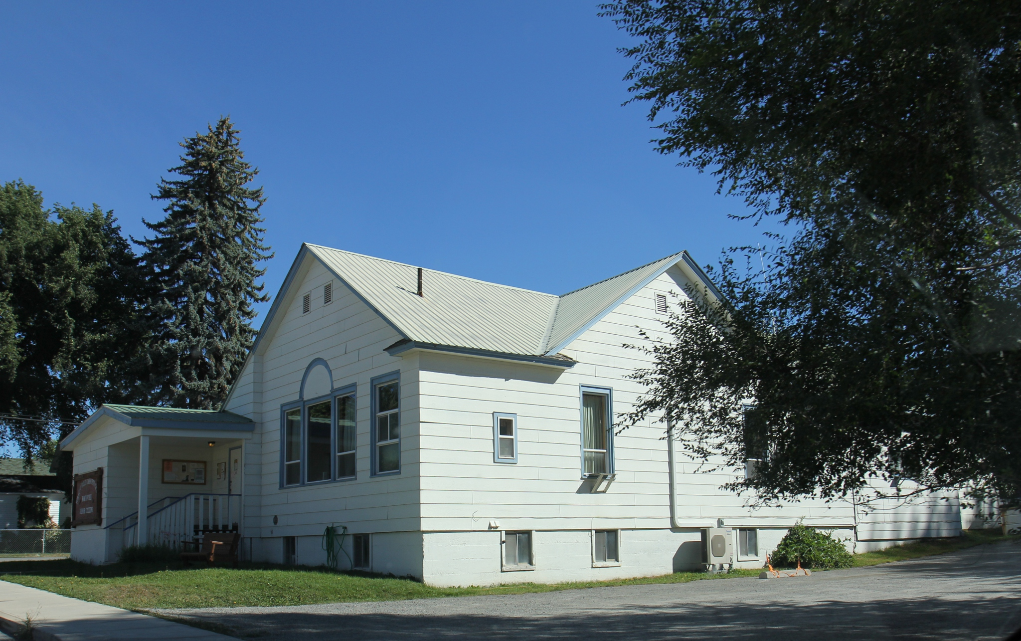 The Tobacco Valley Community Center in Eureka, Montana.